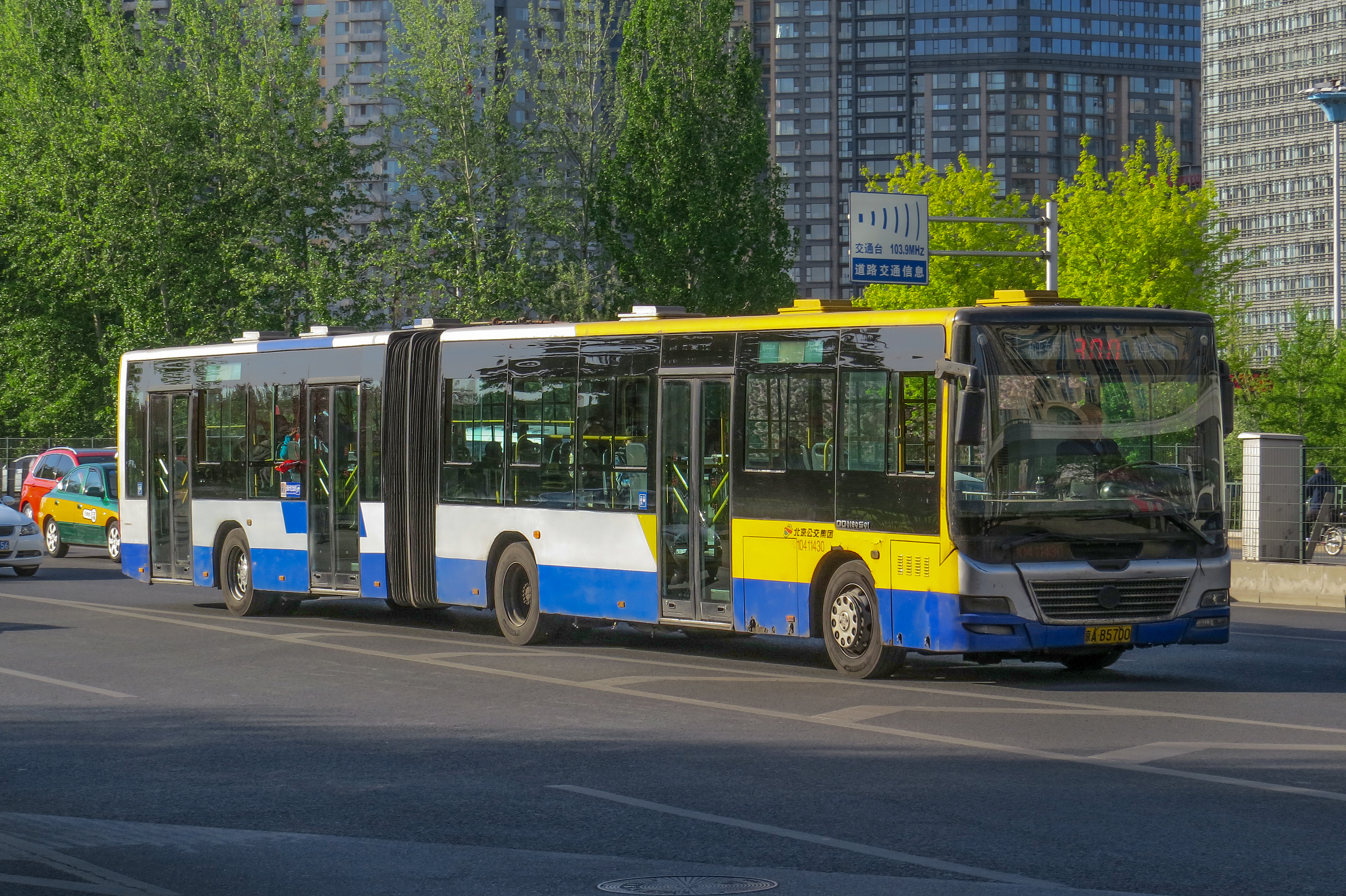 Front-engined with vacant seats... Dr. Shi's aim shall be.